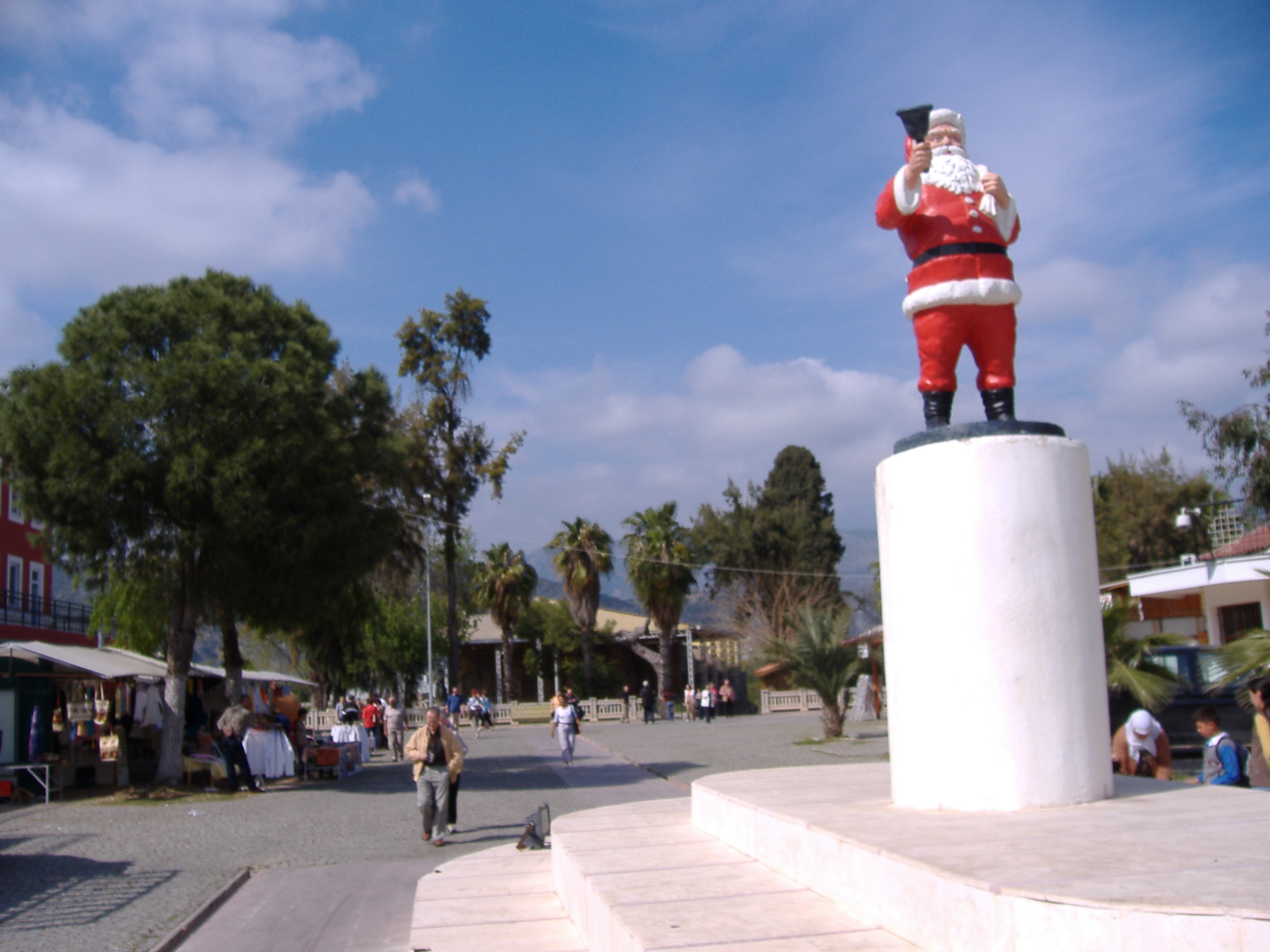 Santa Claus sculpture at square in front of the Saint Nicolas church in Demre (Turkey)